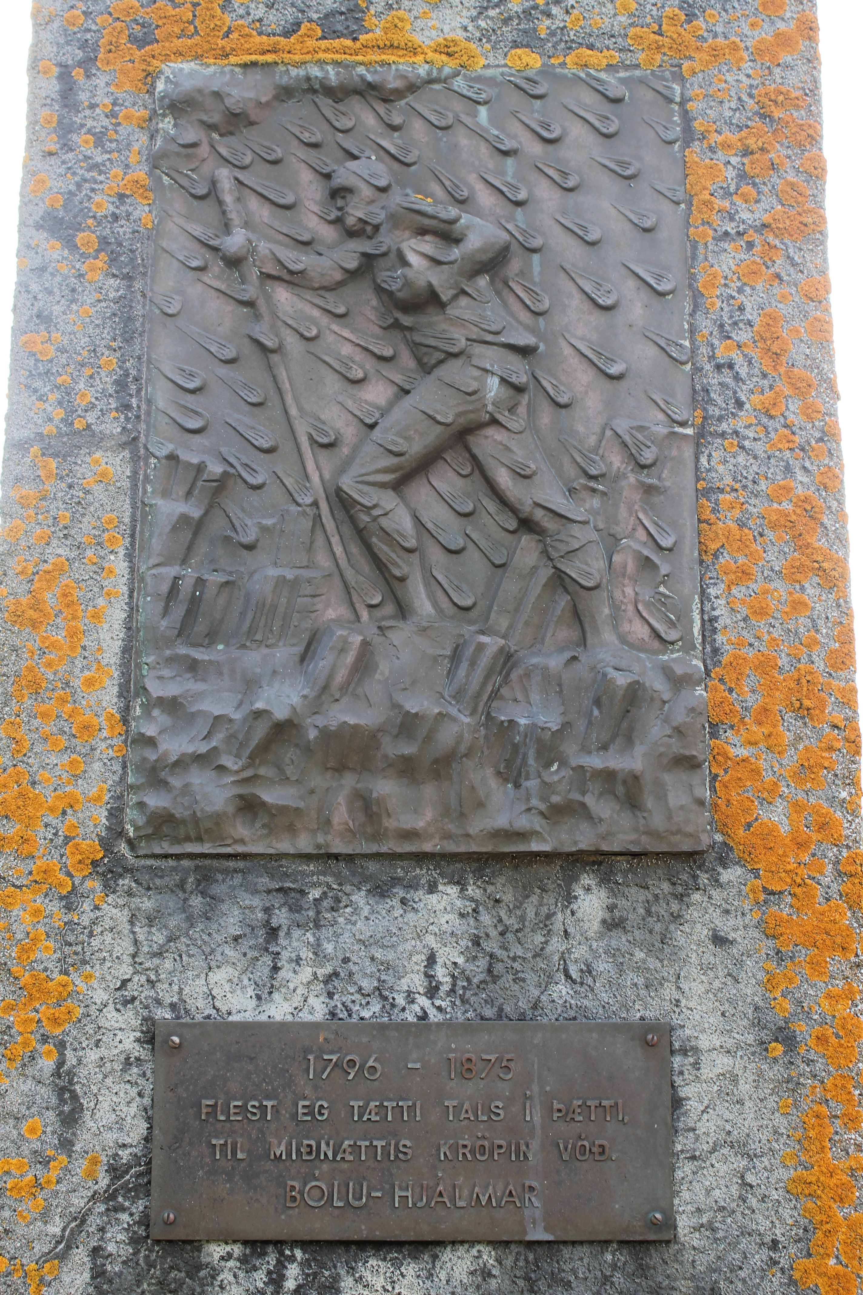 Detail from memorial for the poet Bólu-Hjálmar Jónsson, at Bóla, Skagafjörður, Northern Iceland.